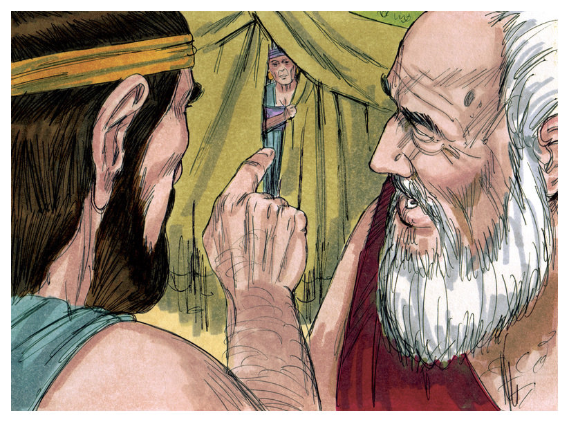 Biblical illustration of Book of Genesis Chapter 18